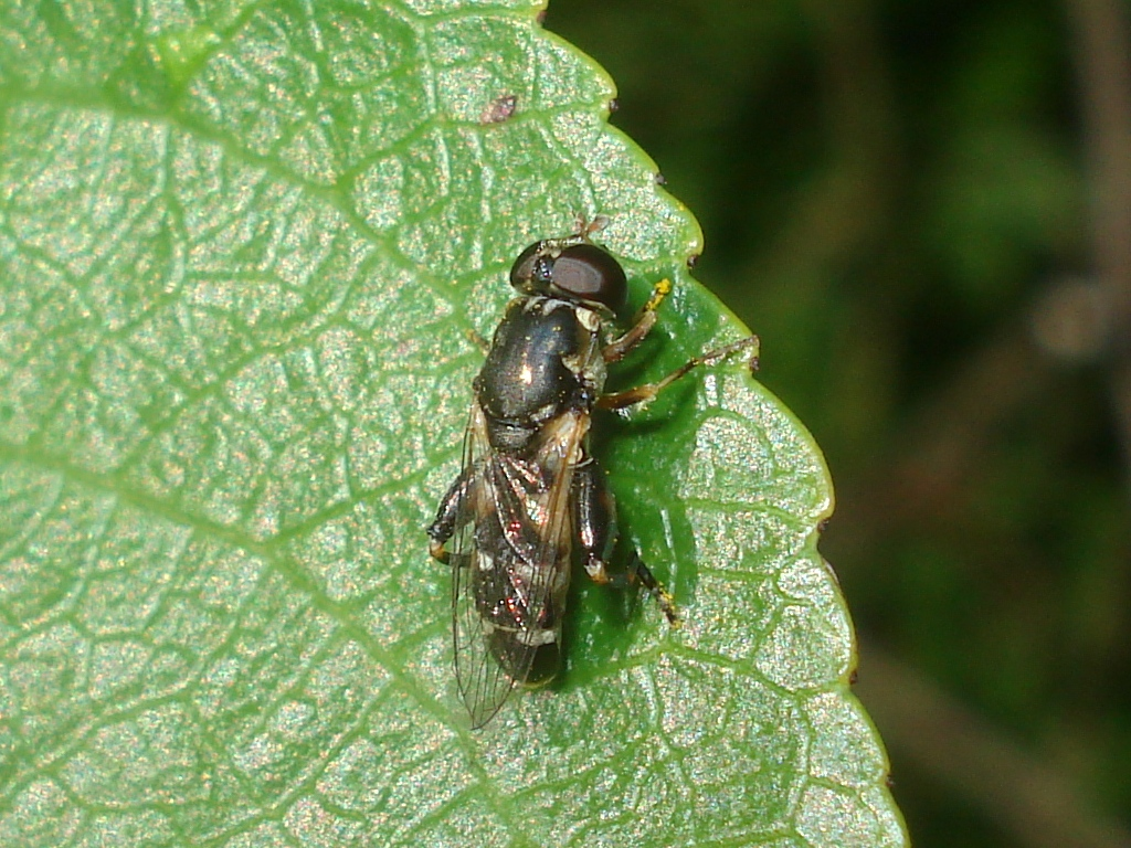 Syritta pipiens